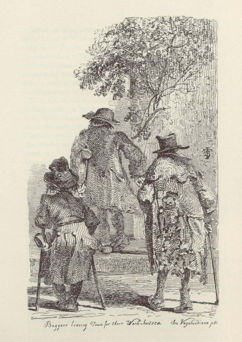 Beggars leaving town for their workhouses